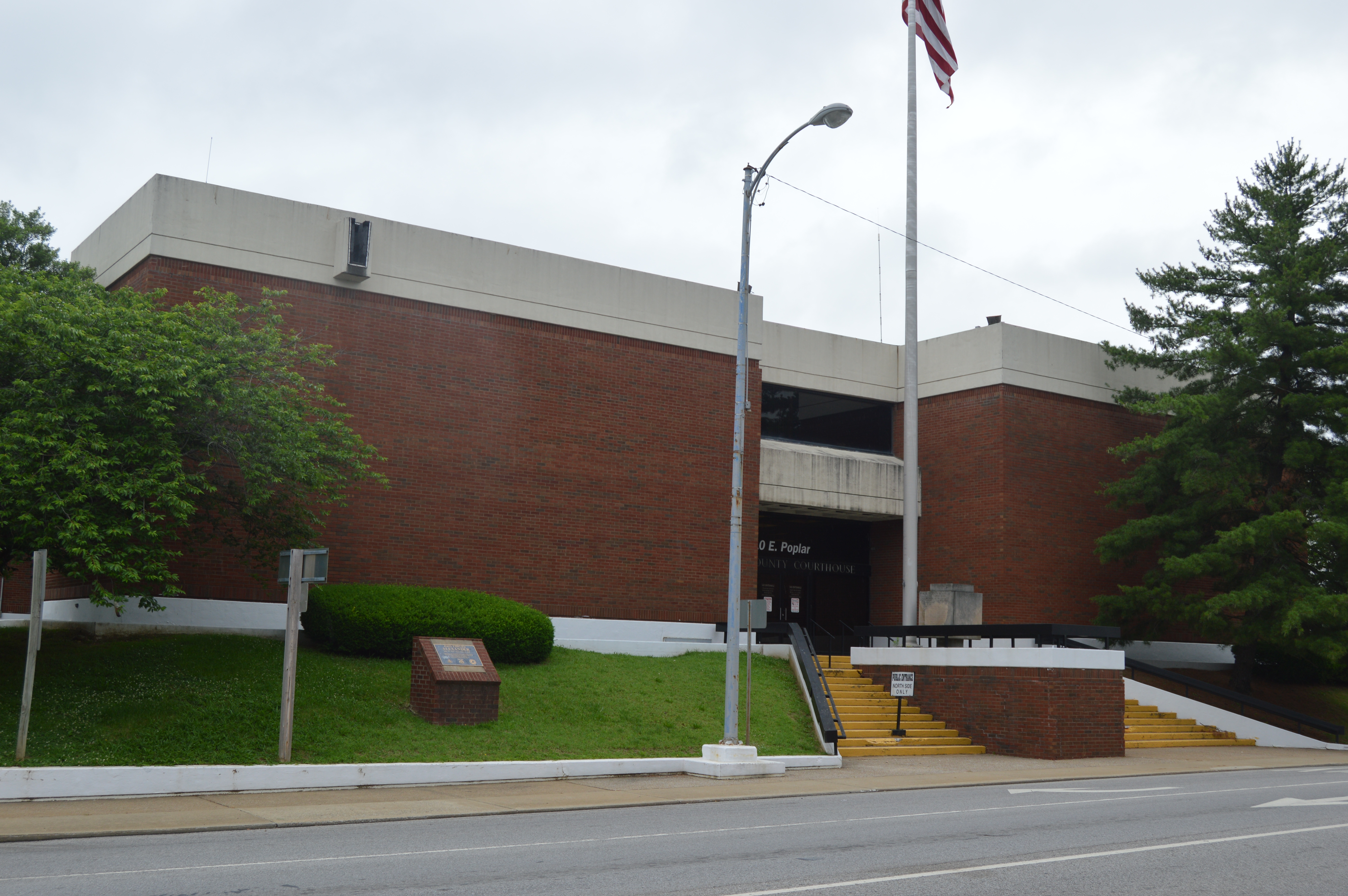 Southern front of the Saline County Courthouse, located at 10 Poplar Street in Harrisburg, Illinois, United States. It was built in 1967.